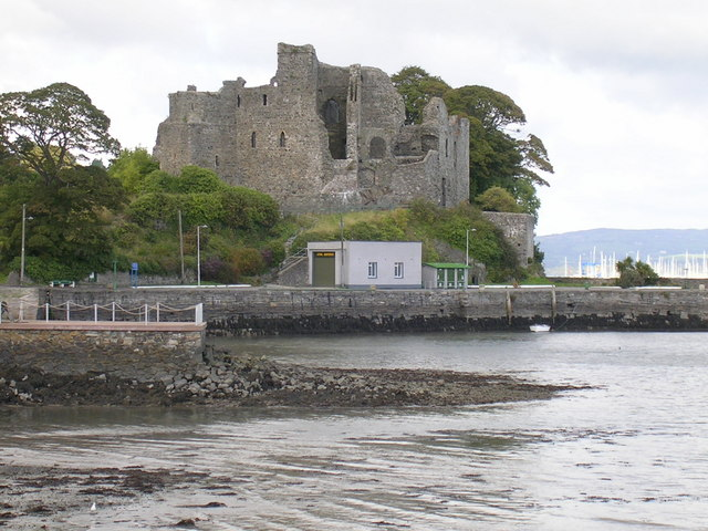 King John's Castle Carlingford